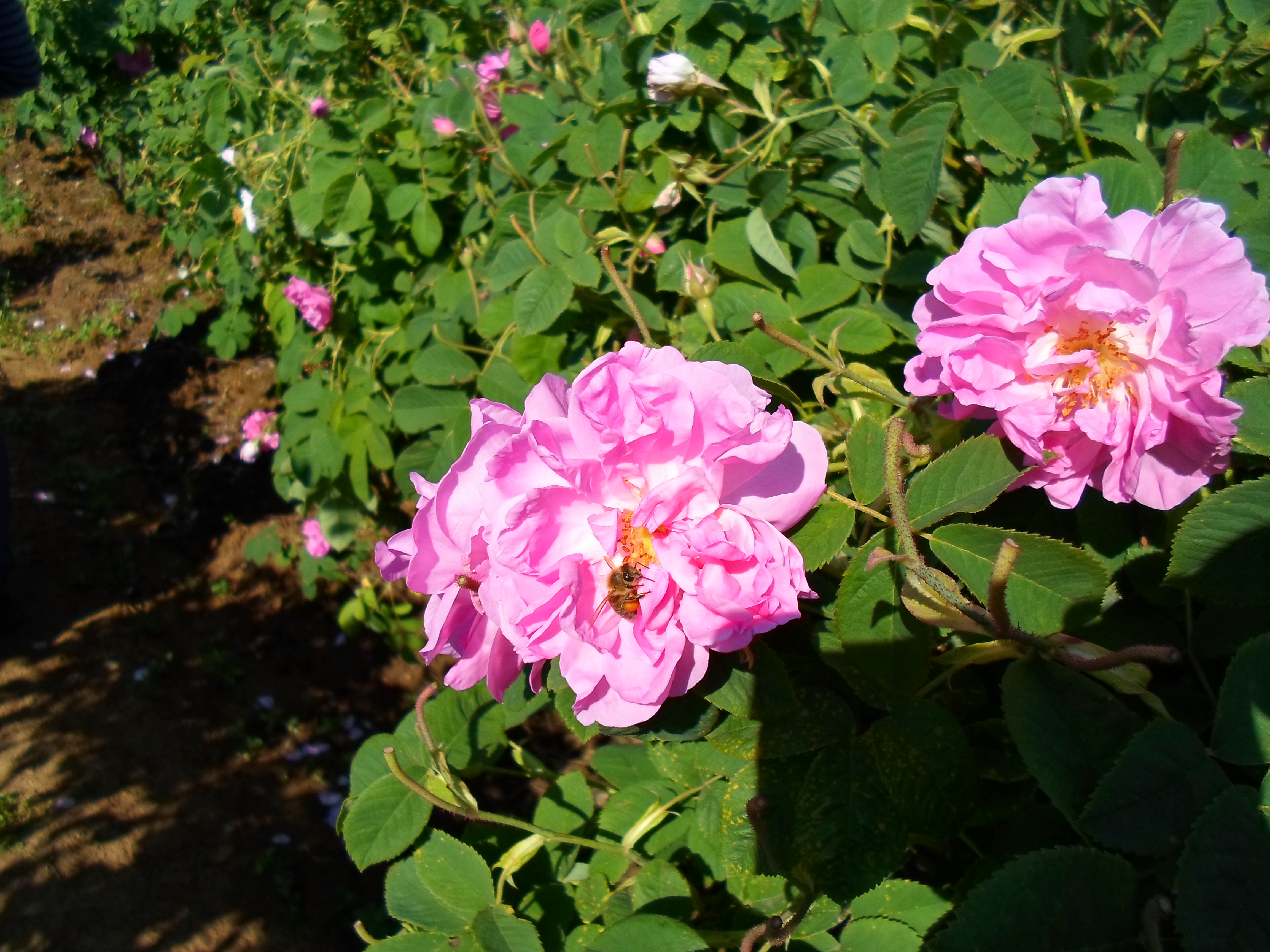 Bulgarian Rosa damascena